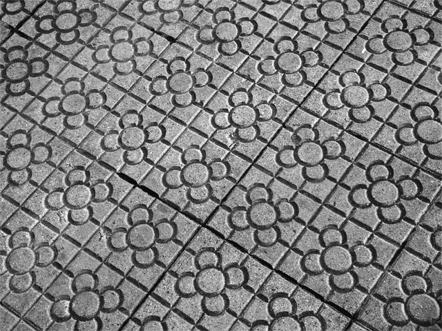 Model tile known as "tile of Bilbao".